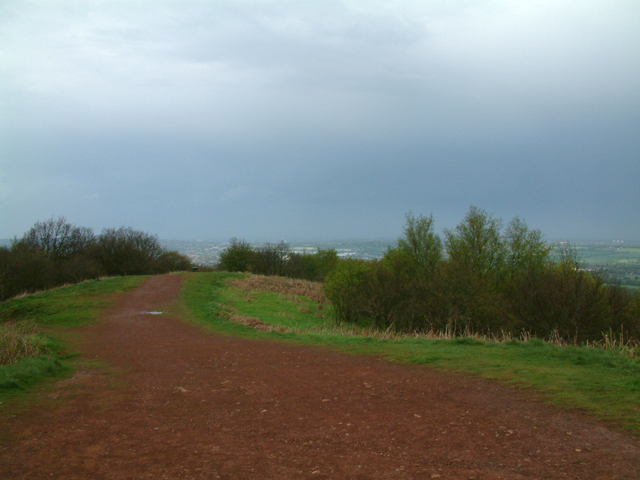 Walton Hill Path along the summit ridge of Walton Hill, highest (315 metres above sea level) of the Clent Hills.